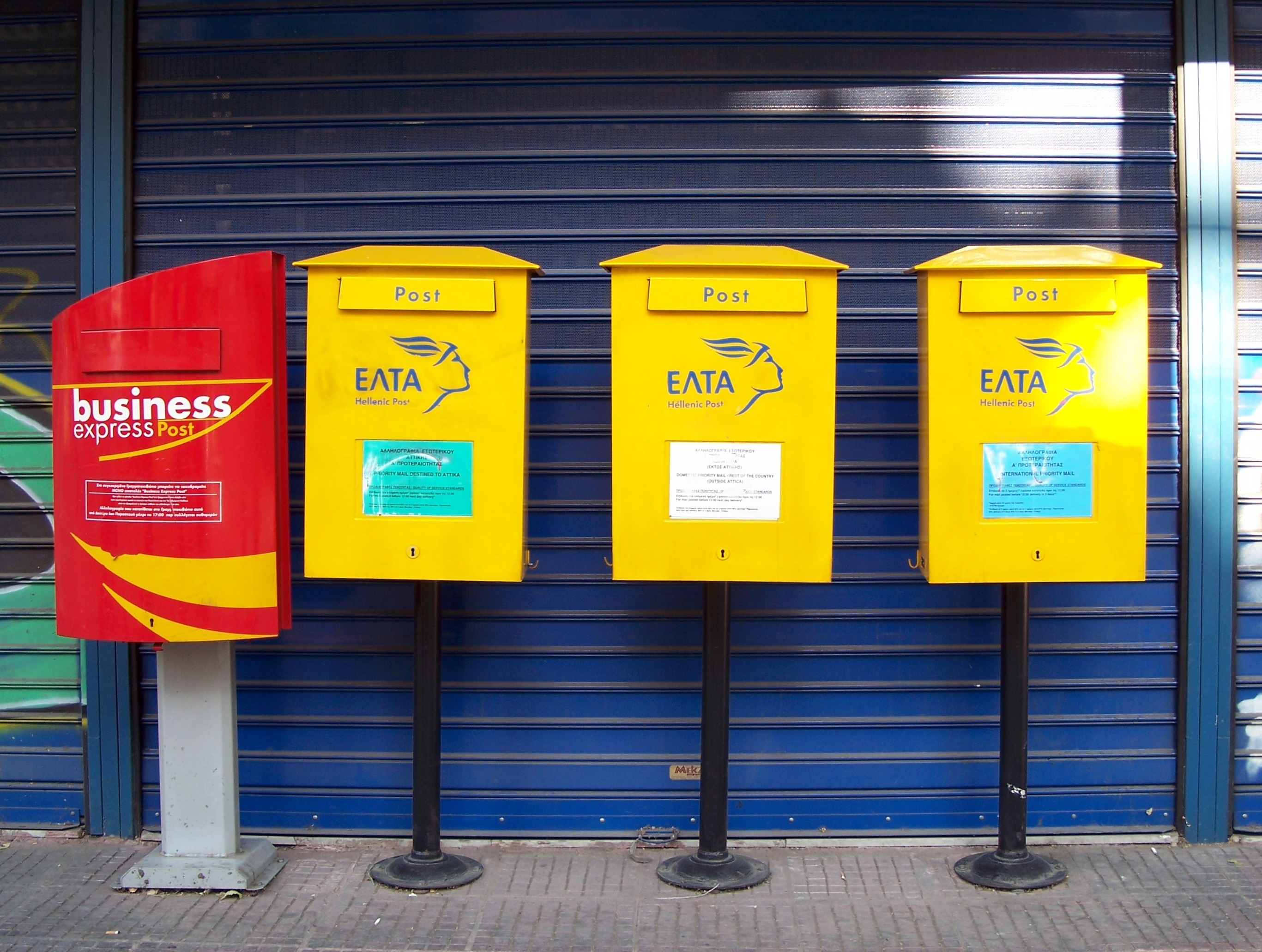 Series of mailboxes outside a Post Office in Athens. L-R:Bussiness express post, Athens and Attica priority mail, Domestic priority mail, International priority mail